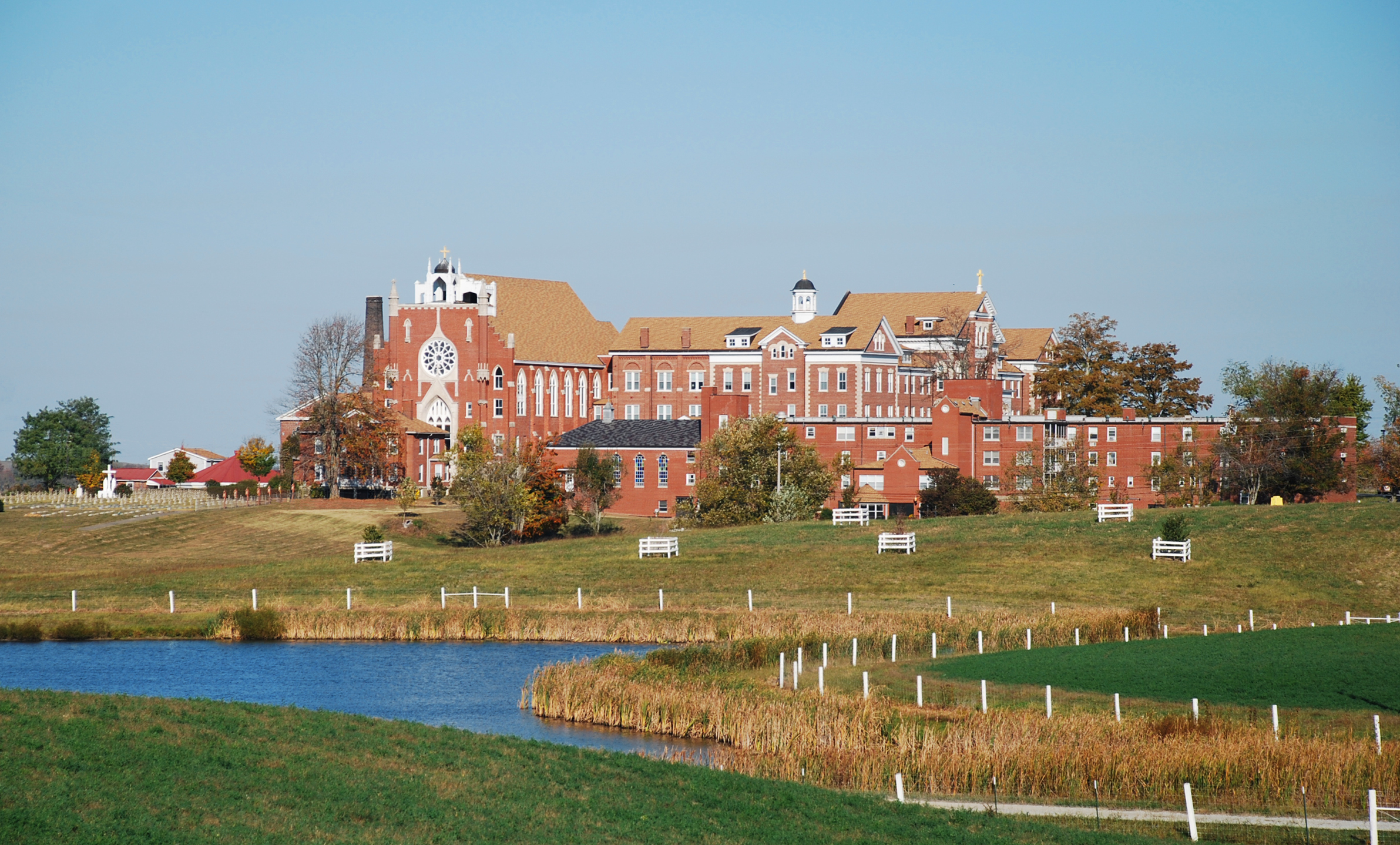 Photo of St. Cathrine chapel. This is is original building which is now part of St. Cathrine College located near Springfield, KY